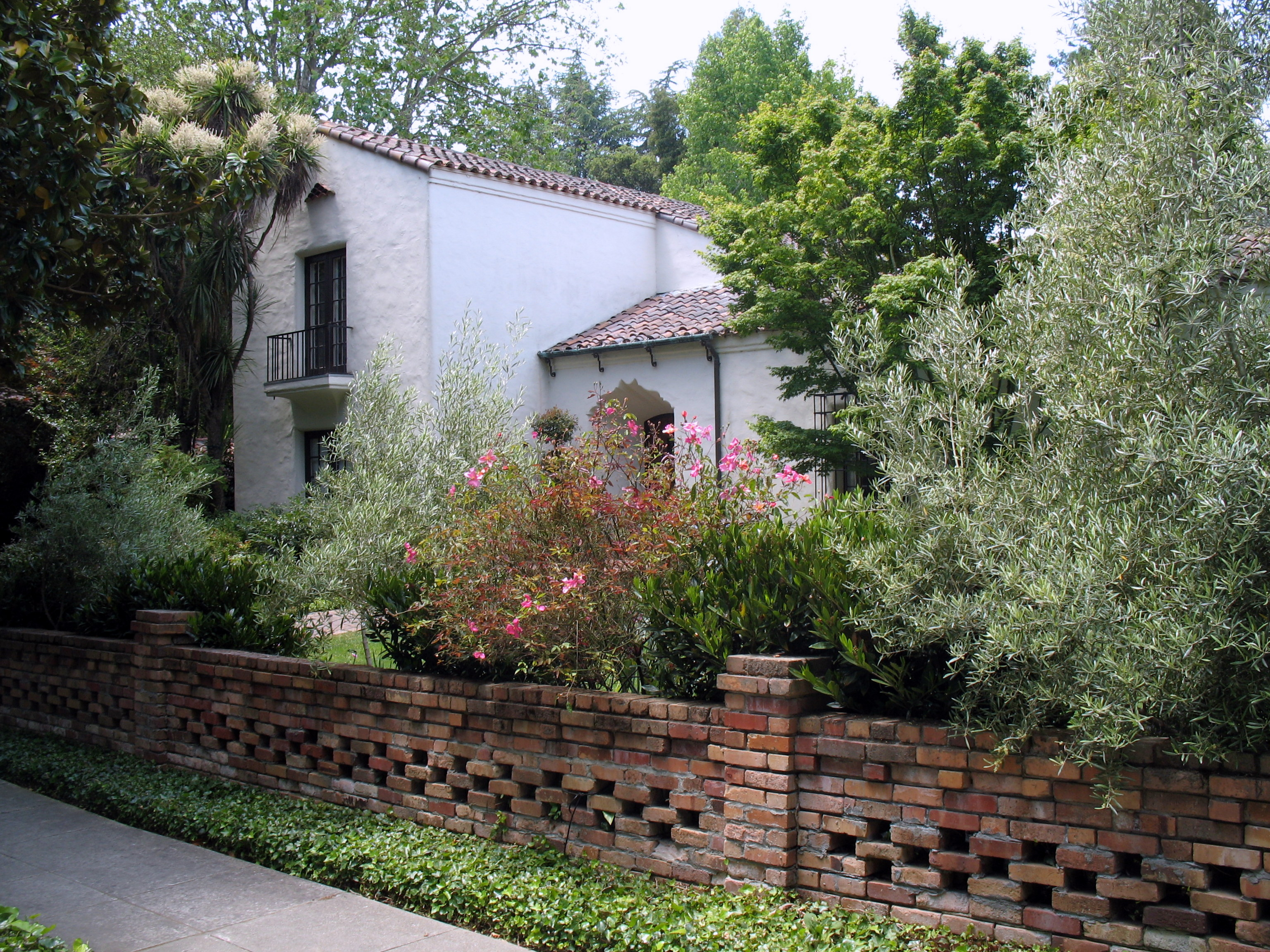 National Register of Historic Places listings in Santa Clara County, California Dunker House, 420 Maple St., Palo Alto, CA